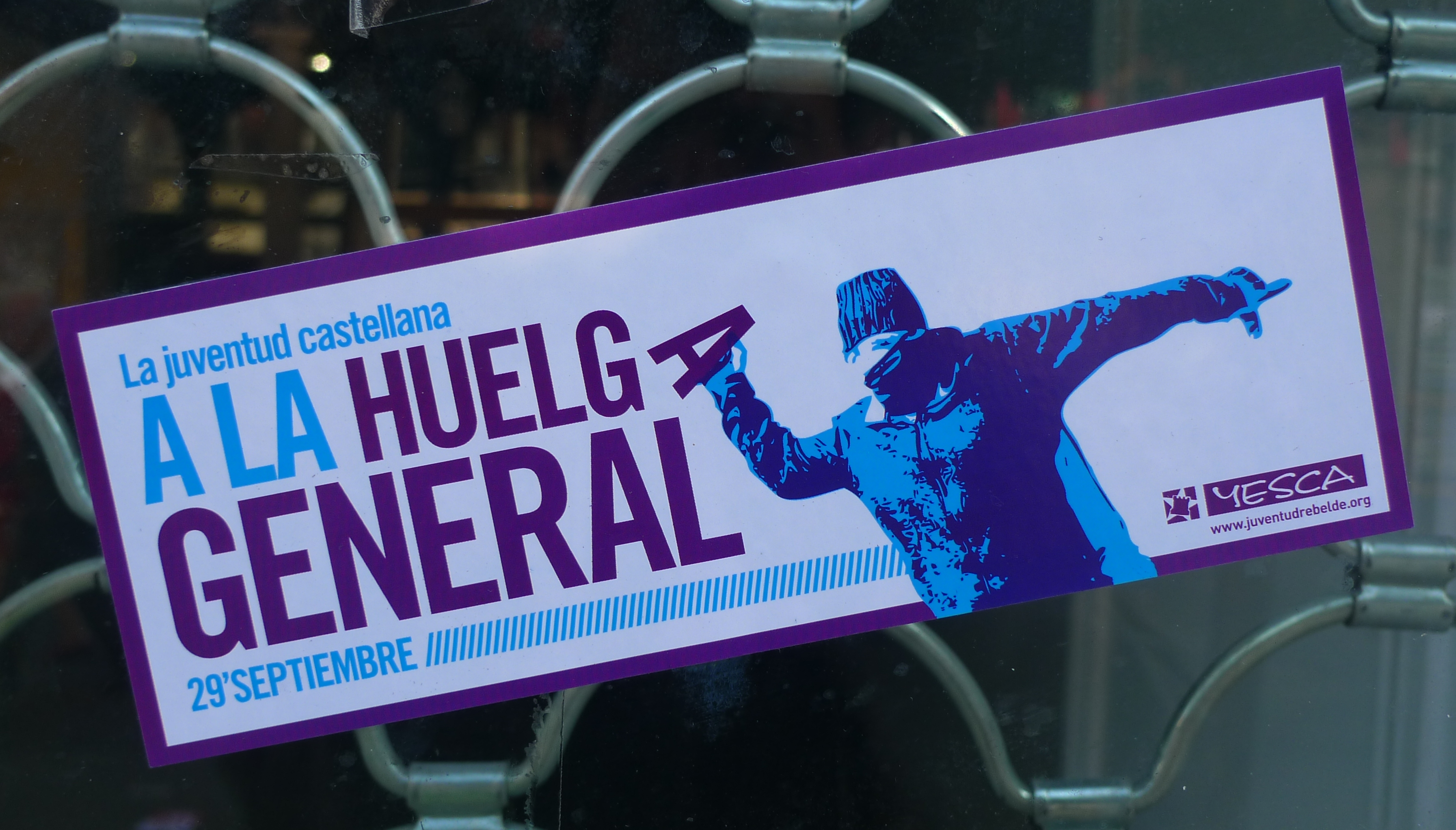 2010 Spain, general strike 29th september, (activism yesca)